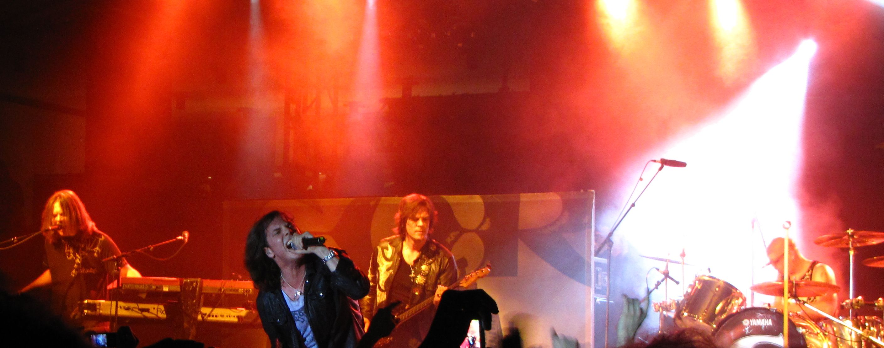 Europe performing in Trnava, Slovakia 2010.